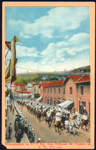 The Opening of the 5th Bulgarian National Assembly, June 1911. Postcard